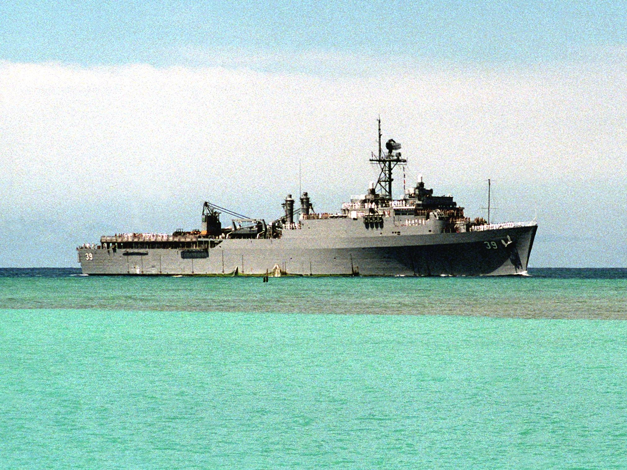 The U.S. Navy dock landing ship USS Mount Vernon (LSD-39) at the entrance to the channel as it arrives for a visit to Naval Station Pearl Harbor, Hawaii (USA), on 1 June 1991. The Mount Vernon was stopping at Pearl Harbor while en route to its home port of Naval Station San Diego, California (USA), after serving in the Persian Gulf region during the 1990-1991 Gulf War.